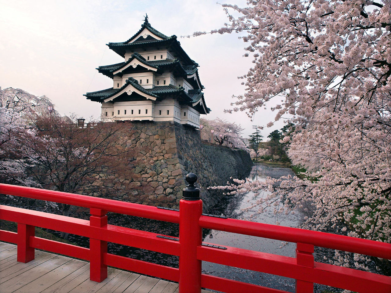 Hirosaki castle